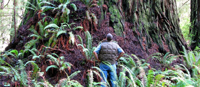 Screaming Titans redwood being viewed by arborist M. D. Vaden of Oregon, March 8, 2008, on a visit to photograph and measure trunk diameters of trees for documentation. This same tree has been labeled Lost Monarch and Del Norte Titan on the internet, but it should actually be the Screaming Titans, a double stem tree, with a base comparable to the Lost Monarch nearby.